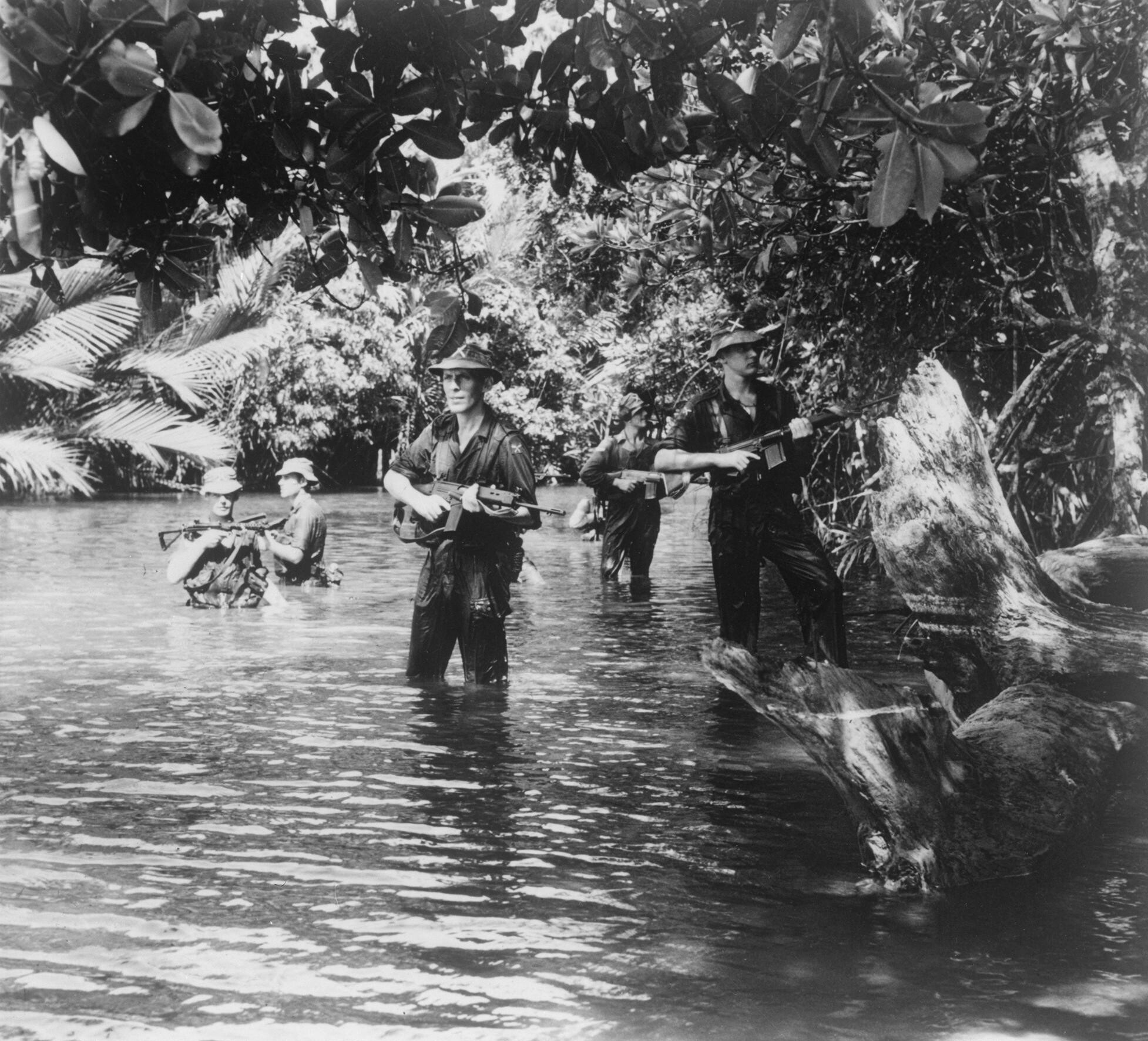 A patrol of the 1st Battalion, Queen's Own Highlanders (Seaforth and Camerons) searches for rebels in the jungle of Brunei, during the Indonesian Confrontation.